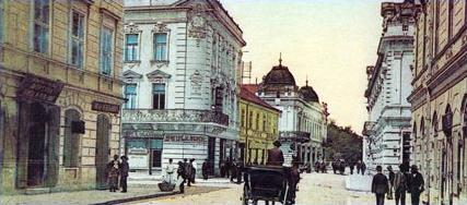 Knez Mihailova Street, Belgrade, Serbia, XIX century